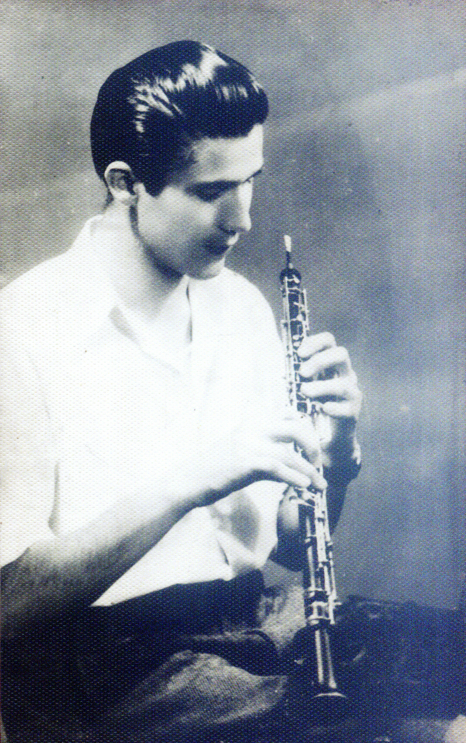 Photo od macedonian musician Risto Jurukov